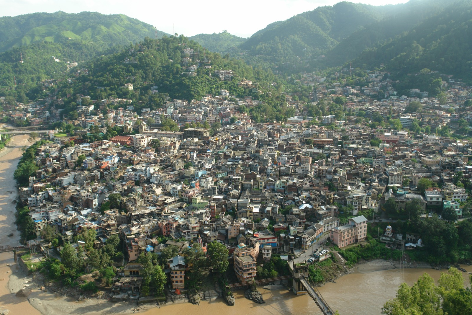 Top view of Mandi Town, Himachal Pradesh